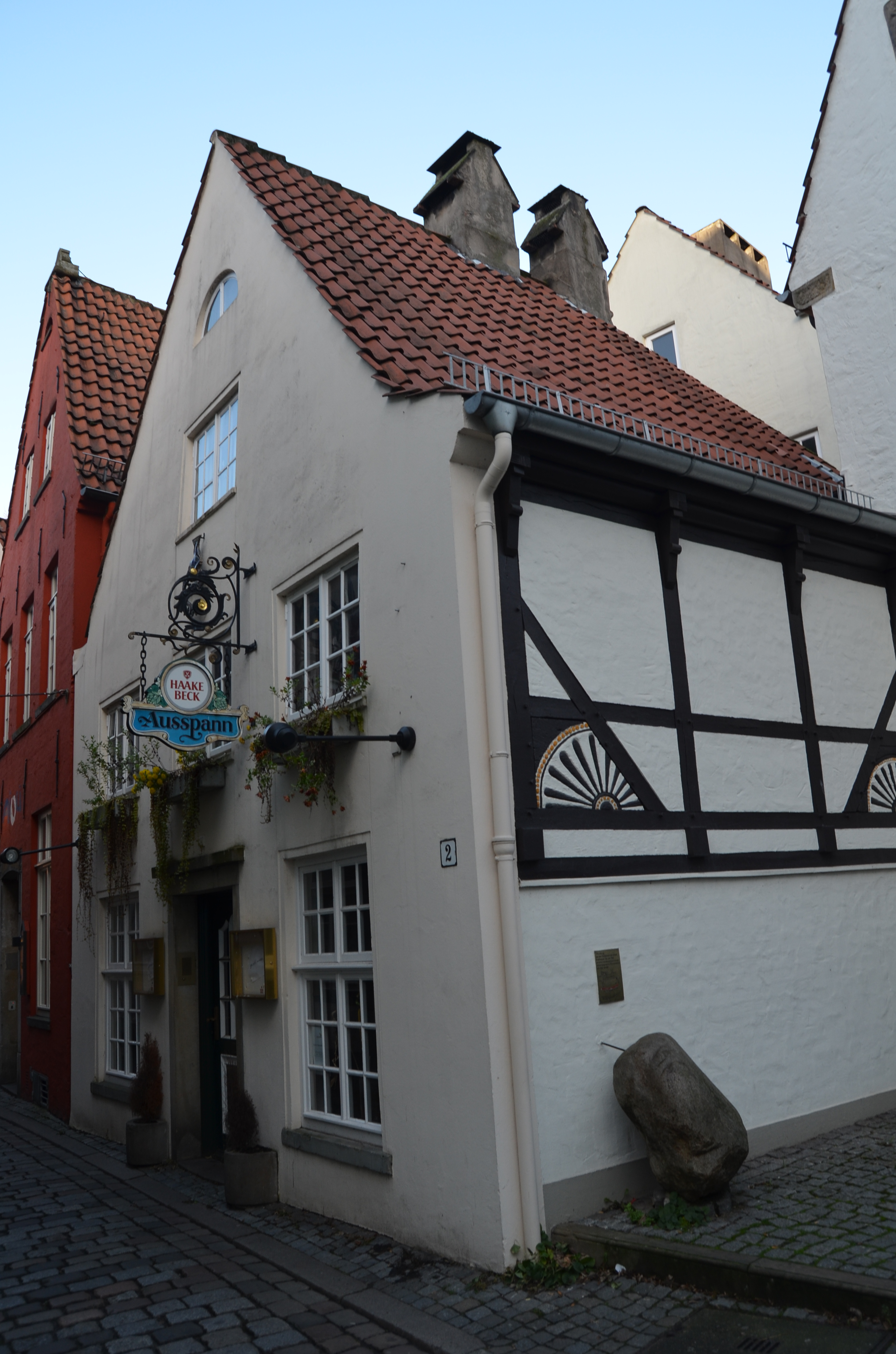 In the old streets of Bremen I